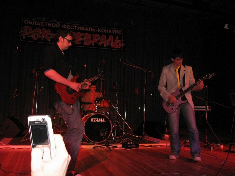 Финалисты фестиваля "Рок-февраль-2007" - группа "ПАрАфрАз"